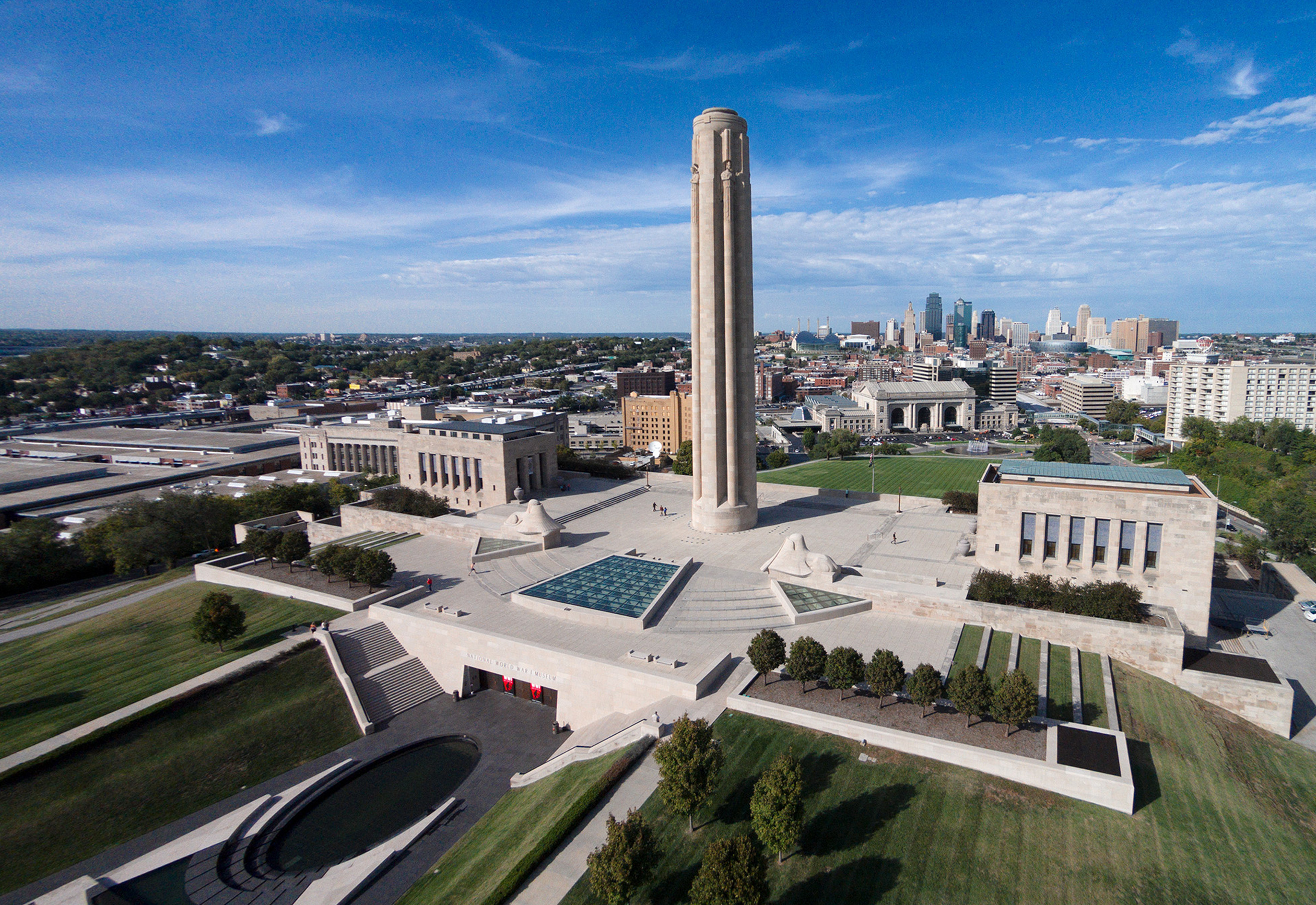 Aerial photo of the National WWI Museum and Memorial with the Kansas City skyline.